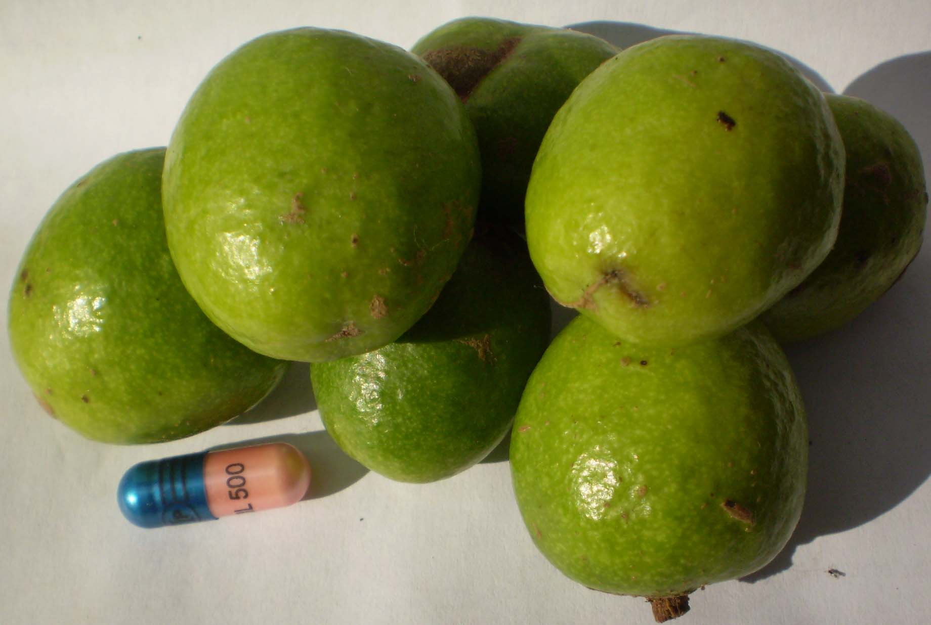 Fruits of Irvingia malayana